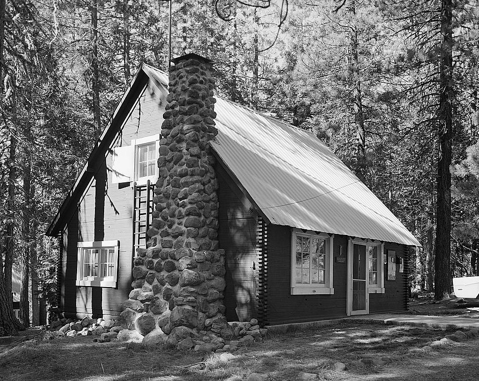 Warner Valley Ranger Residence, Mineral vicinity — Lassen Volcanic National Park, Tehama, (Plumas County, California). 1976 image courtesy of Historic American Buildings Survey of California (cropped). This file comes from the Historic American Buildings Survey (HABS), Historic American Engineering Record (HAER) or Historic American Landscapes Survey (HALS). These are programs of the National Park Service established for the purpose of documenting historic places. Records consist of measured drawings, archival photographs, and written reports. When reusing please credit: Library of Congress, Prints & Photographs Division, CA-2114-J This tag does not indicate the copyright status of the attached work. A normal copyright tag is still required. See Commons:Licensing. This work is in the public domain in the United States because it is a work prepared by an officer or employee of the United States Government as part of that person’s official duties under the terms of Title 17, Chapter 1, Section 105 of the US Code. Note: This only applies to original works of the Federal Government and not to the work of any individual U.S. state, territory, commonwealth, county, municipality, or any other subdivision. This template also does not apply to postage stamp designs published by the United States Postal Service since 1978. (See § 313.6(C)(1) of Compendium of U.S. Copyright Office Practices). It also does not apply to certain US coins; see The US Mint Terms of Use. This file has been identified as being free of known restrictions under copyright law, including all related and neighboring rights. Object location40° 26′ 28″ N, 121° 22′ 57″ W